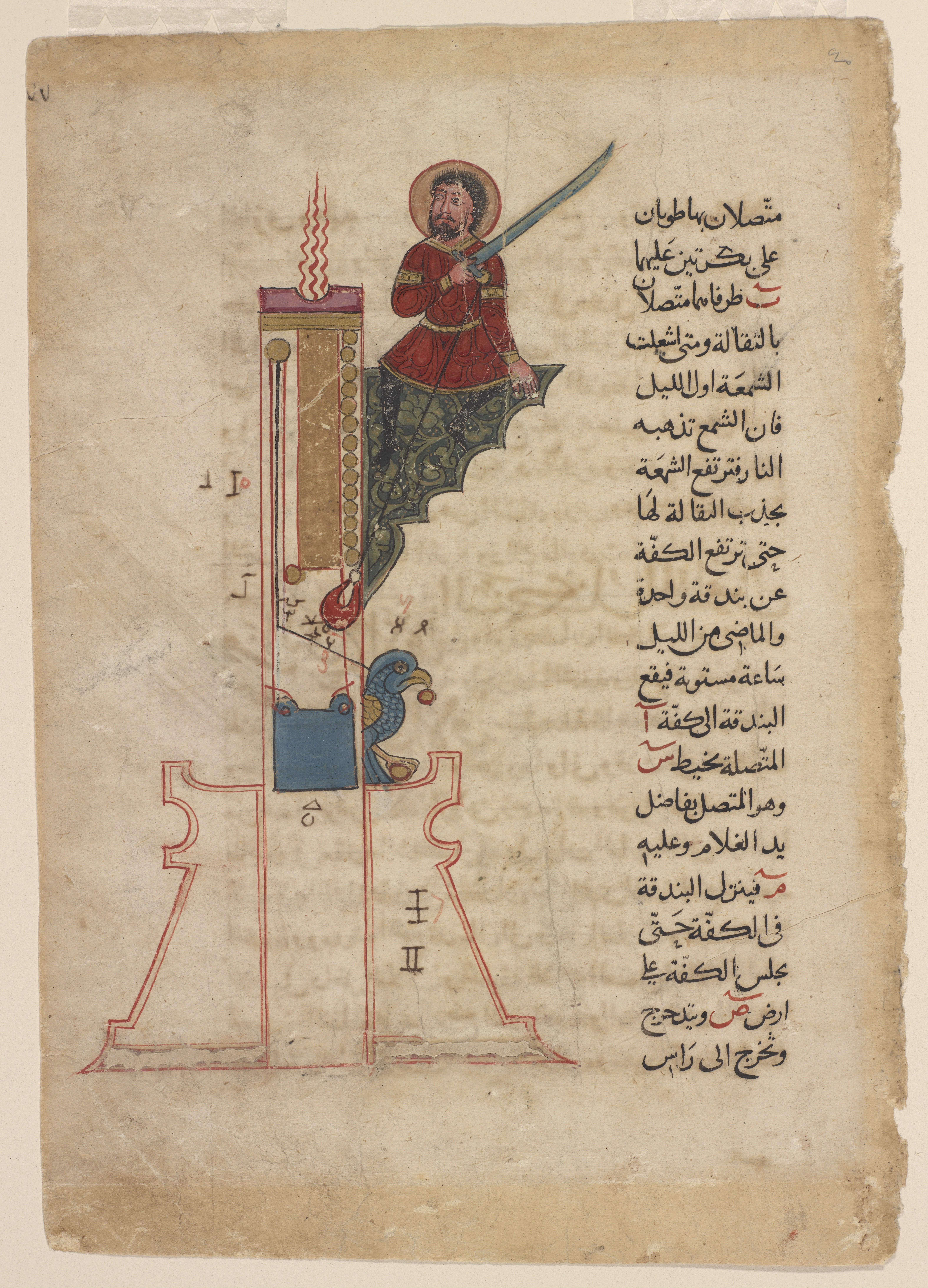 A Candle Clock from a copy of al-Jazaris treatise on automata, Kitab fi ma'ari-fat al-hiyal al-handasiya Folio from Kitab fi ma`arifat al-hiyal al-handisaya (The book of knowledge of ingenious mechanical devices) Automata by al-Jazari (d. 1206); recto: A candle clock; verso: text